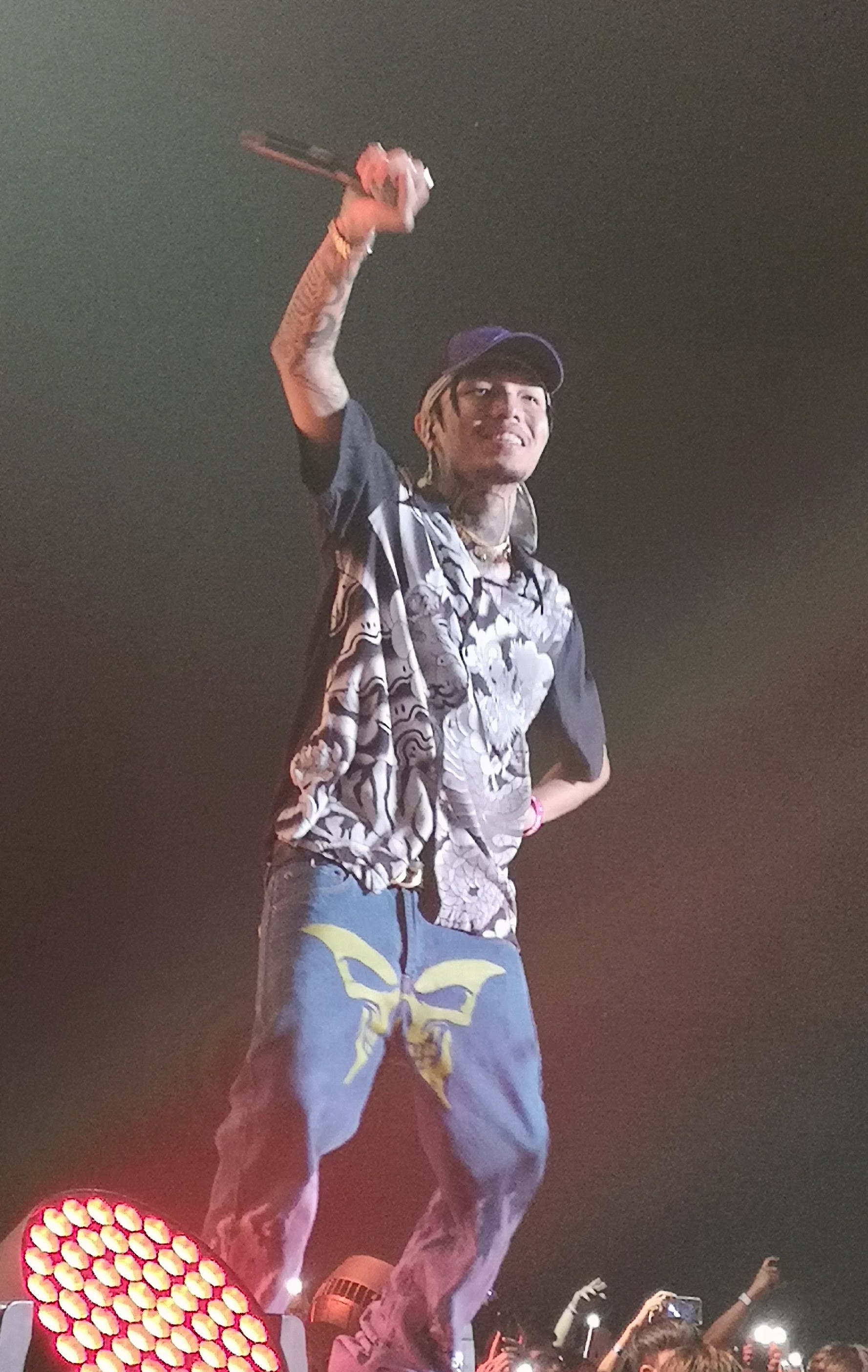 Young Ohm at Spotify On Stage BKK 2019